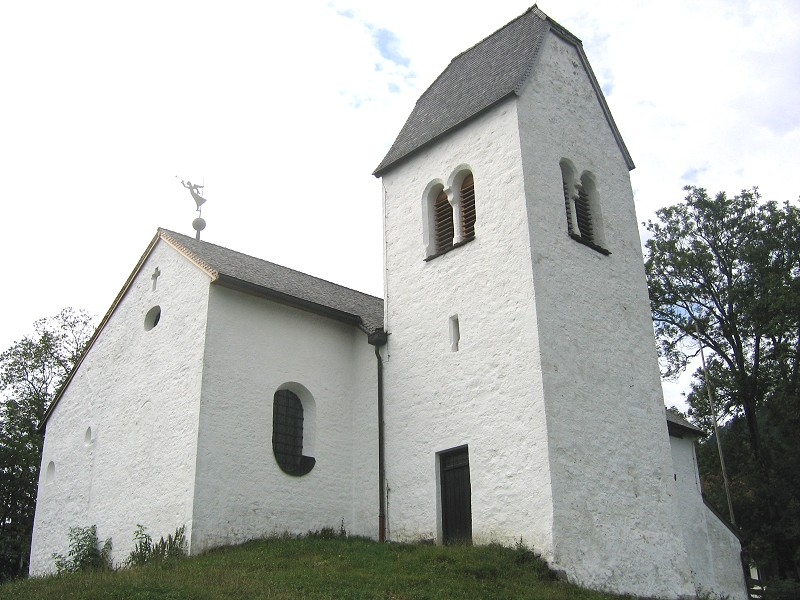 Petersberg (municipality of Flintsbach am Inn), view of Saint Peter's Sanctuary from north.